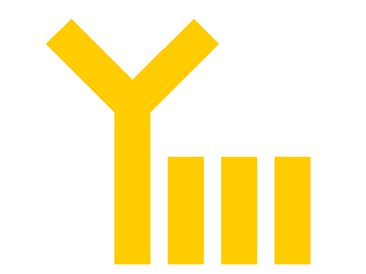 Mark of Ww2 GermanDivision Panzer 10 - 1941-1943